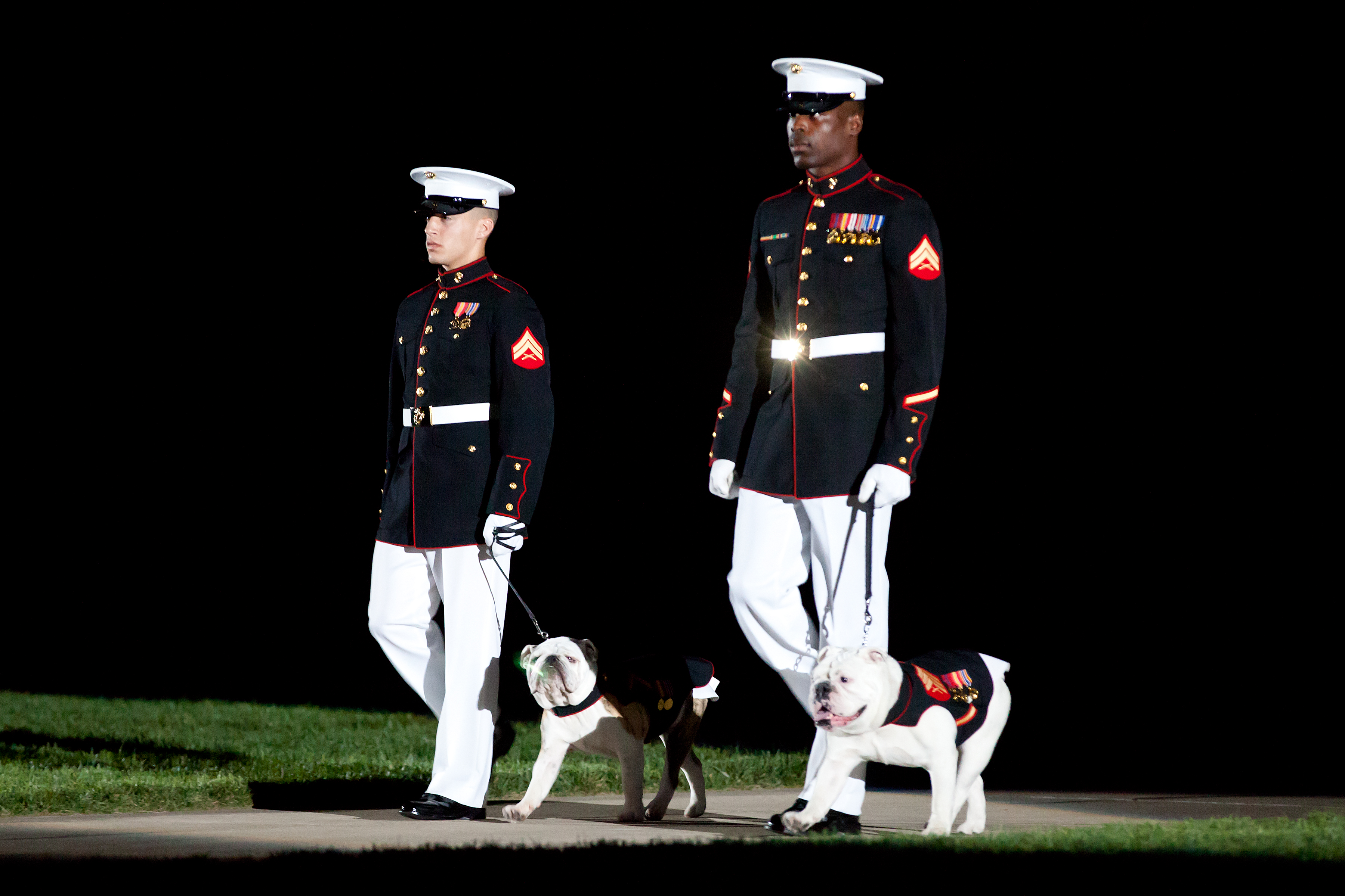 Two U.S. Marine Corps corporals escort the current and prior U.S. Marine mascots, English bulldog Sgt. Chesty XIII and Pfc. Chesty XIV, down center walk during an Evening Parade at Marine Barracks Washington in Washington, D.C., July 19, 2013. The Evening Parade, a tradition dating back to July 5, 1957, is offered to express the dignity and pride that represents more than two centuries of heritage for all Americans.